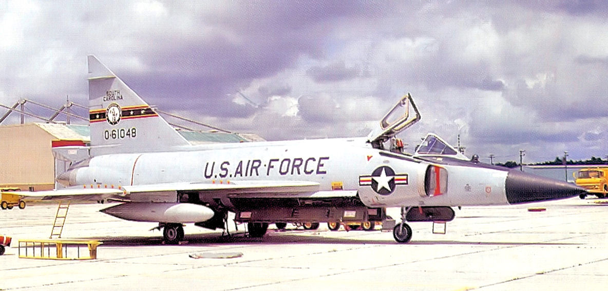 157th Fighter-Interceptor Squadron Convair F-102A-60-CO Delta Dagger 56-1048 Was retired to MASDC as FJ0362 Mar 6, 1975